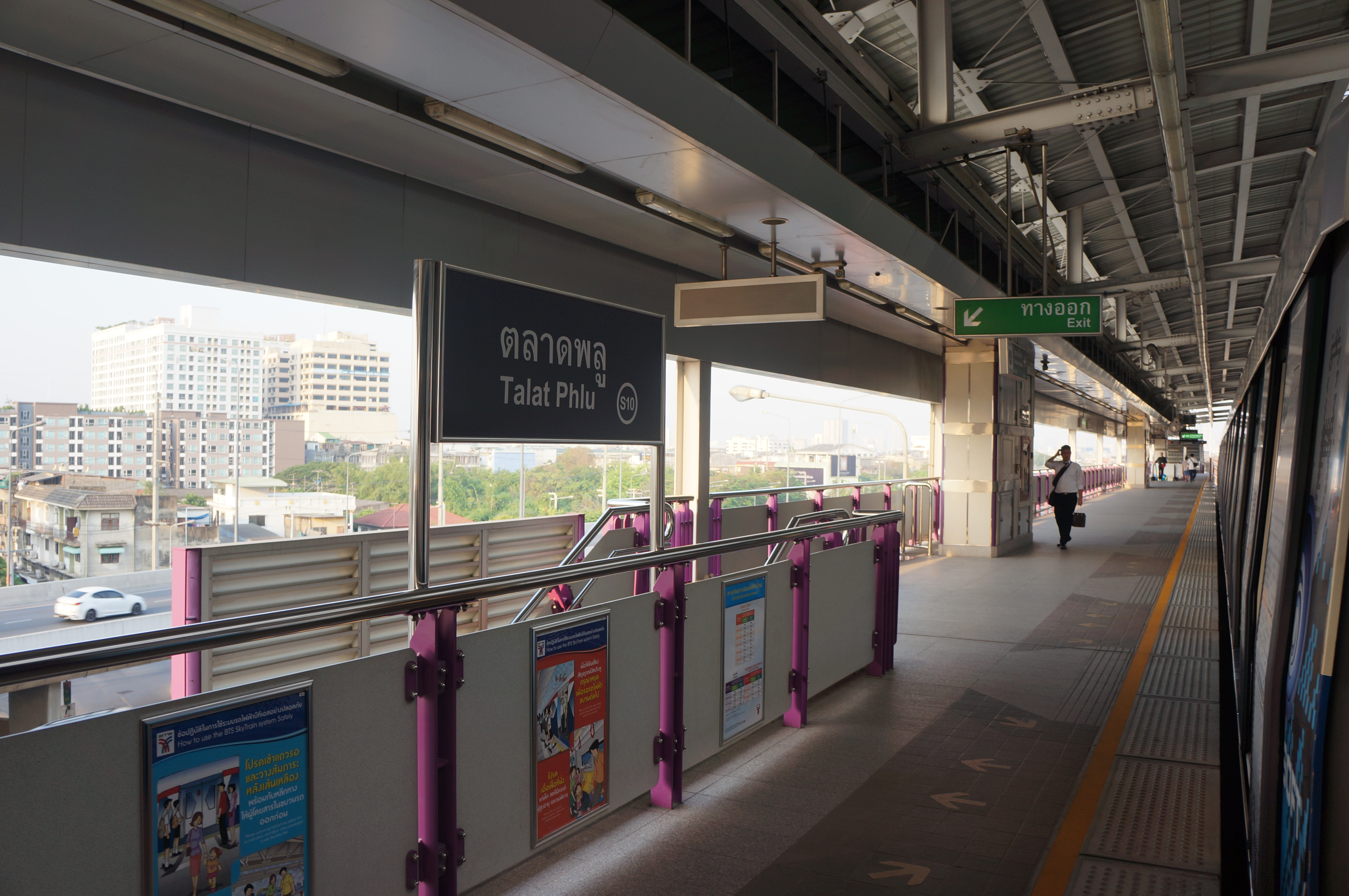 201701 Talat Phlu Station